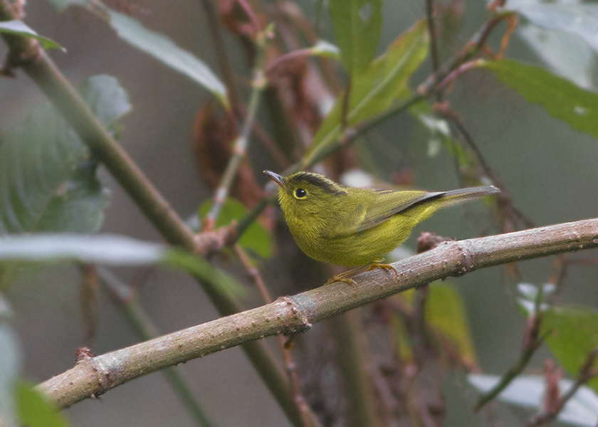 The species Green-crowned Warbler had been photographed during the birding tour of GoingWild in Neora Valley National Park, West Bengal, India on 01.05.2016.